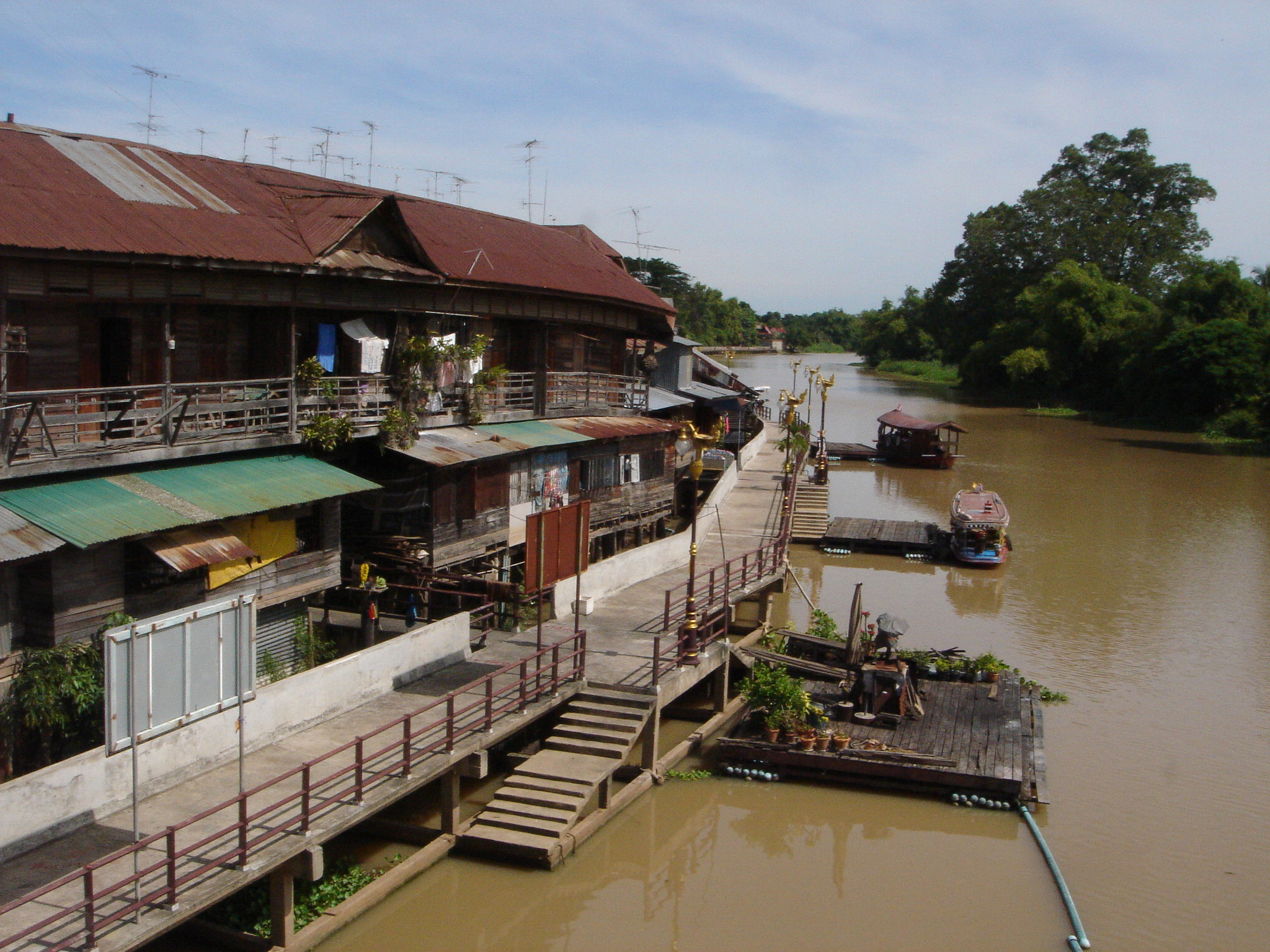 Sam Chuk, the 100-year-old Traditional Market on the banks of the Tha Chin River, Suphan Buri Province, Thailand